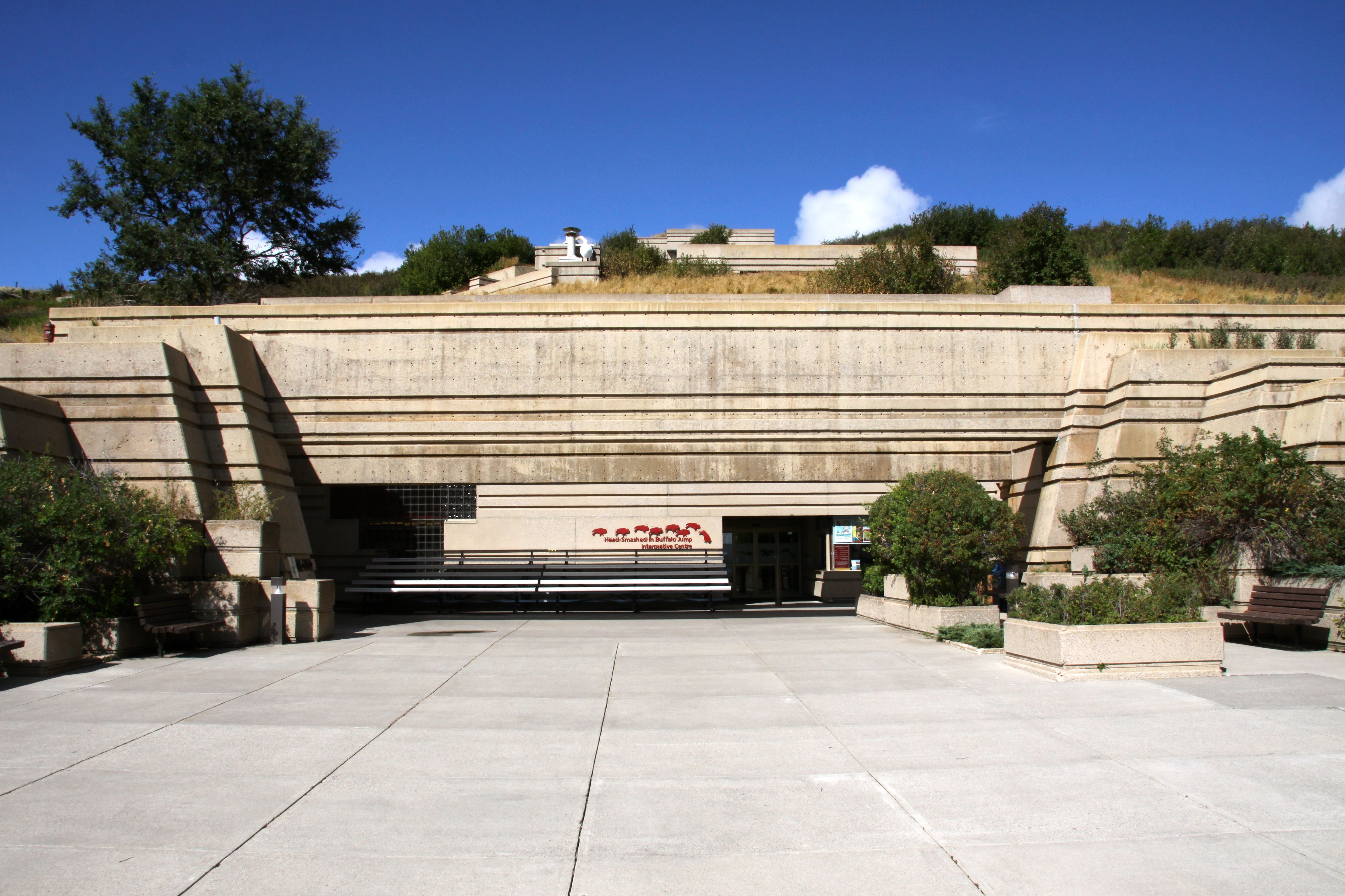 Head-Smashed-In Buffalo Jump Visitor Centre